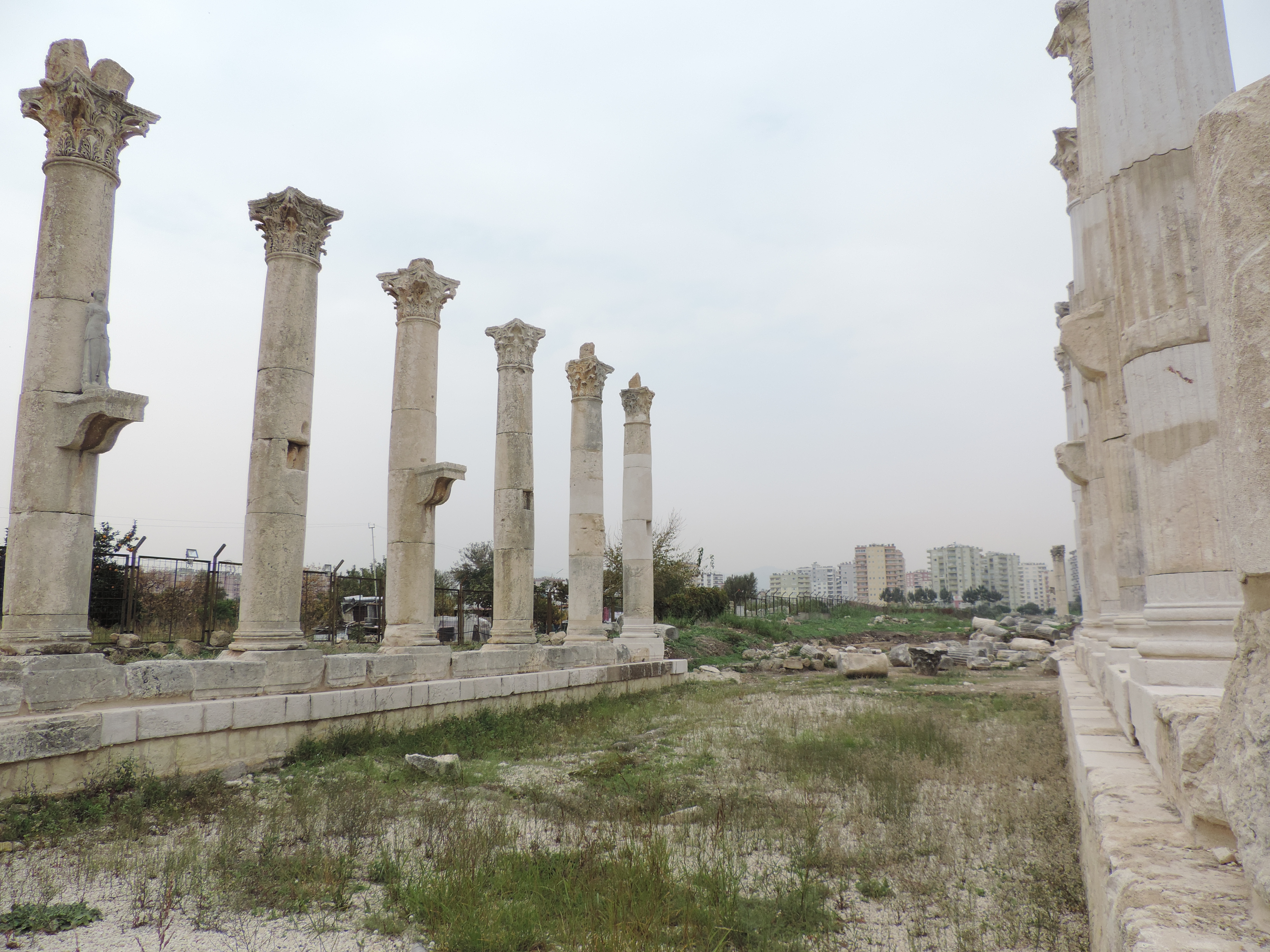 Remains from the ancient town Soli / Pompeiopolis, Cilicia, nowadays near Mersin, Turkey.